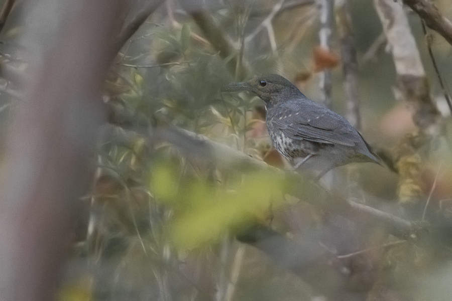 The species Long-billed Thrush had been photographed during birding trip of GoingWild in Kedarnath Musk Deer Sanctuary, Uttarakhand, India on 25.11.2015.